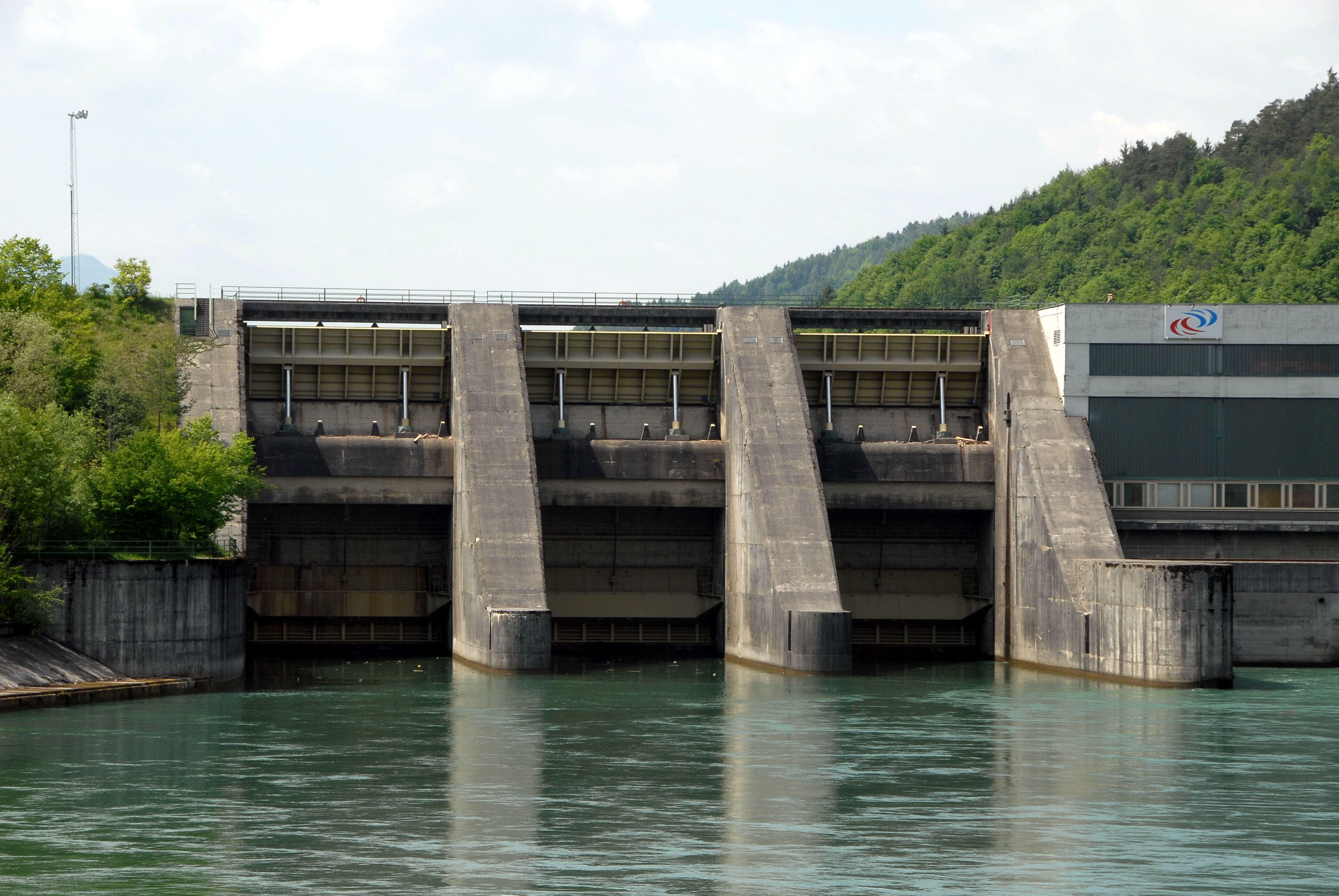 Electricity generating plant, powered by the river Drava, market town Feistritz im Rosental, district Klagenfurt Land, Carinthia, Austria, EU